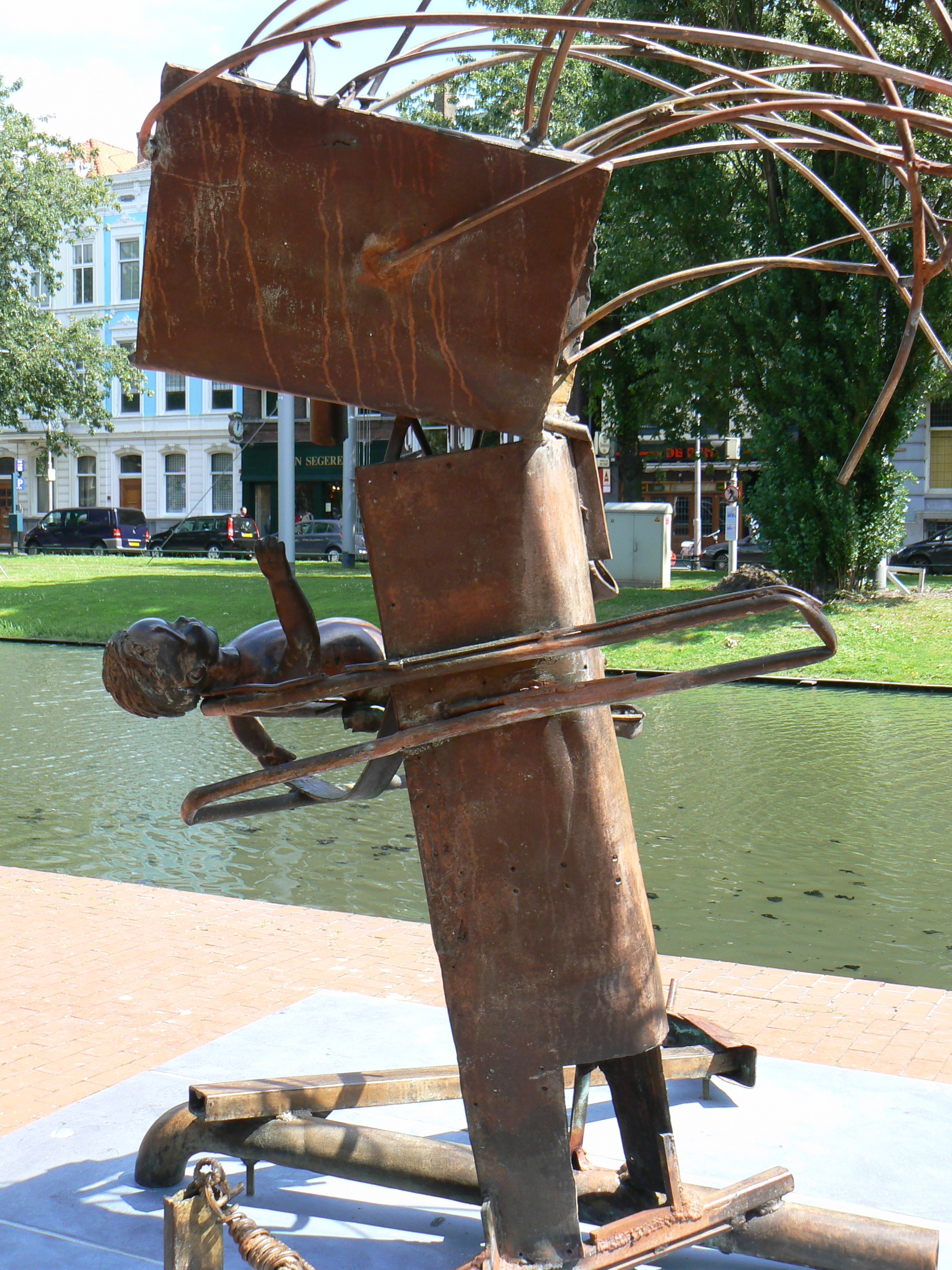 sculpture by Carel Visser in Rotterdam/The Netherlands